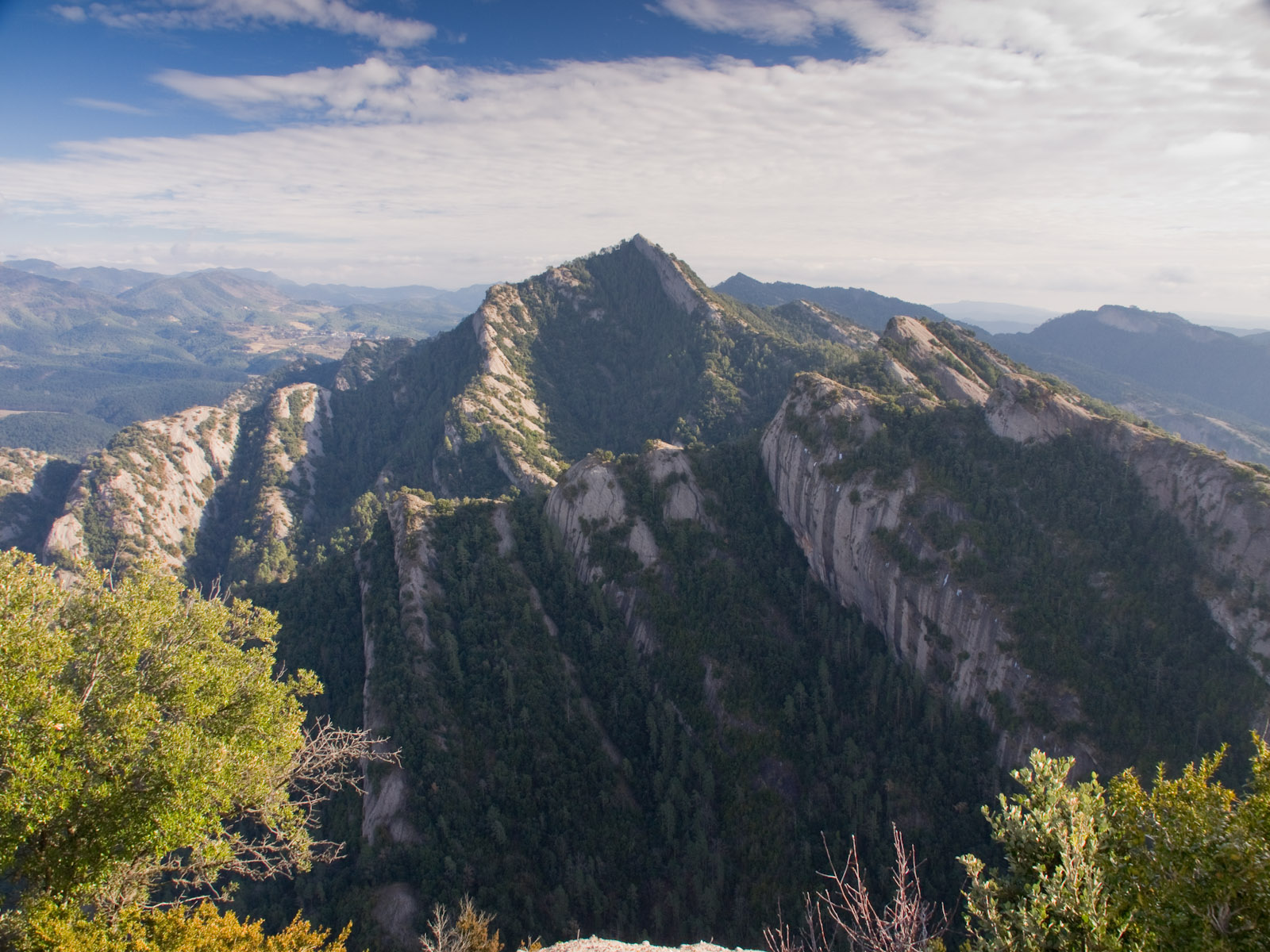 Picancel Mountains. Salga Aguda peak, the highest point